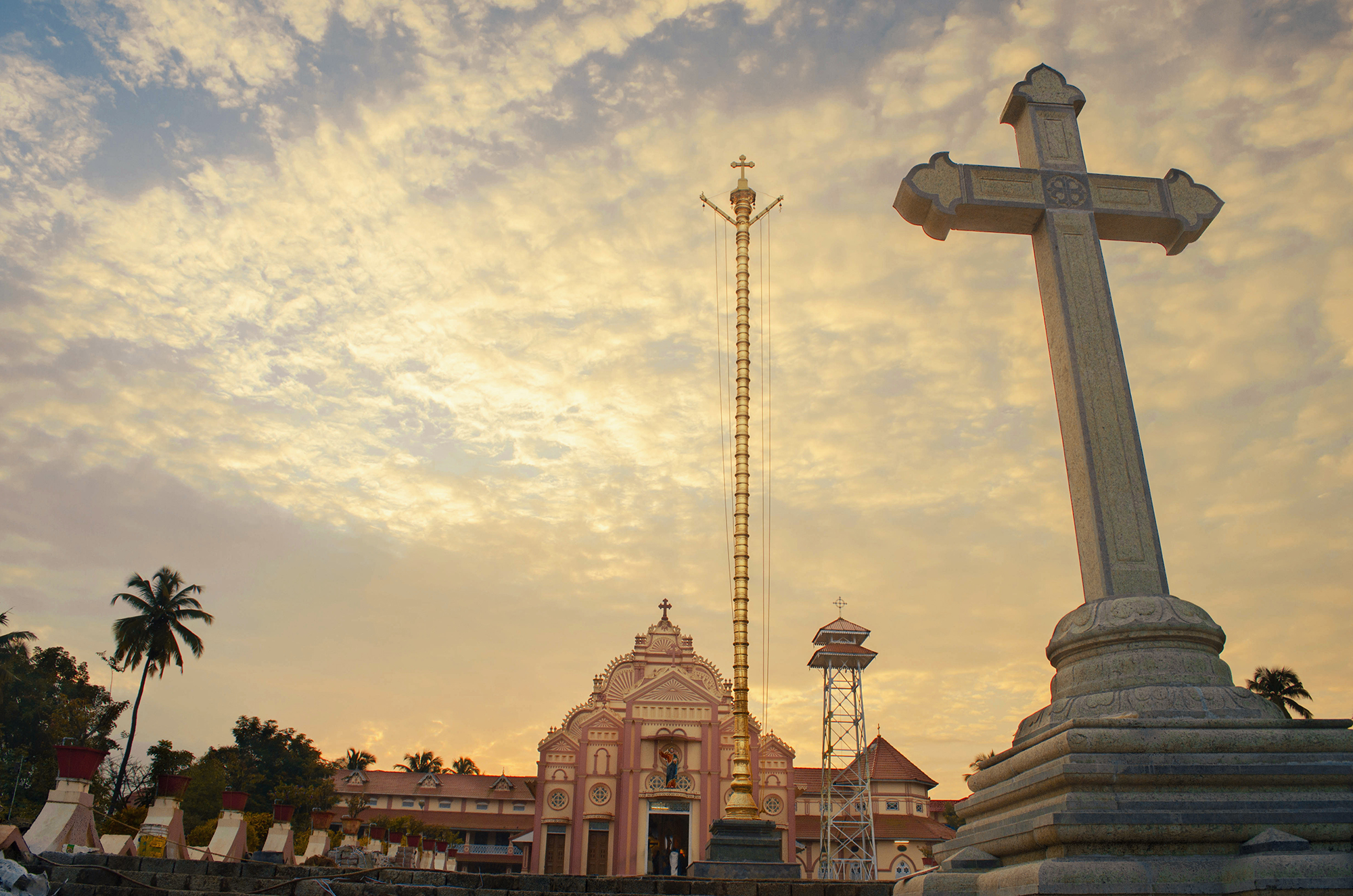 St Thomas Church, Irinjalakuda is one of the oldest churches in India. Its establishment can be traced back to 1845 AD. The image is clicked by Hari Bhagirath